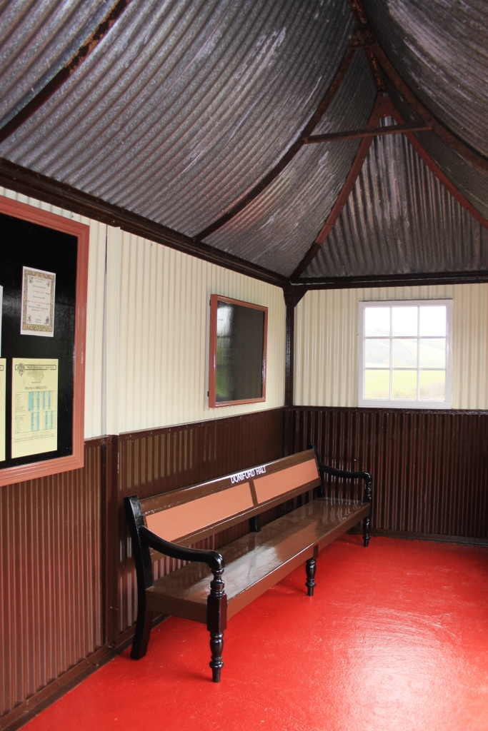 Inside the restored corrugated iron "pagoda" waiting shelter at Donniford Halt station on the West Somerset Railway.